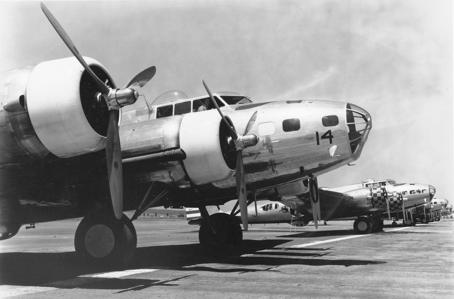 Boeing B-17Bs at March Field, California, prior to Pearl Harbor.